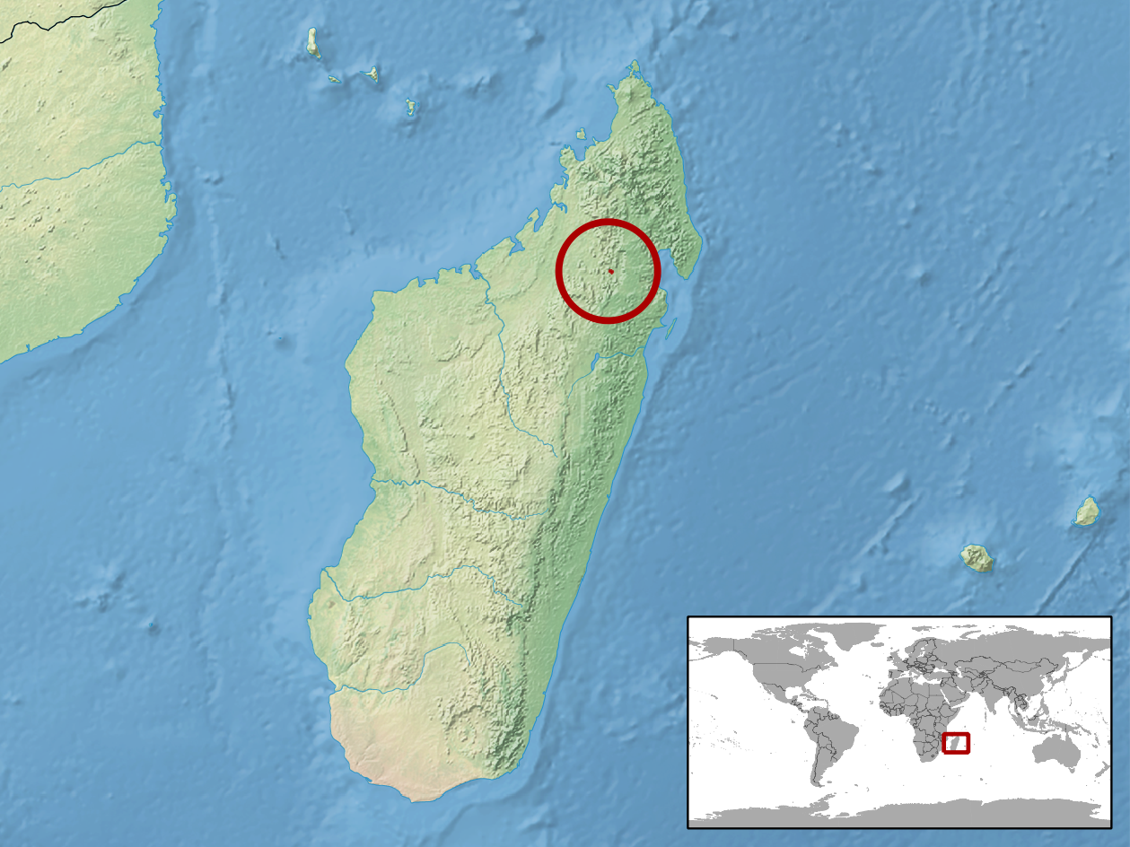 geographic distribution of Lygodactylus ornatus (Native: Madagascar)